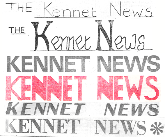 Titles of the Kennet News (1975 at top to 1987+) of Kennet Comprehensive School.